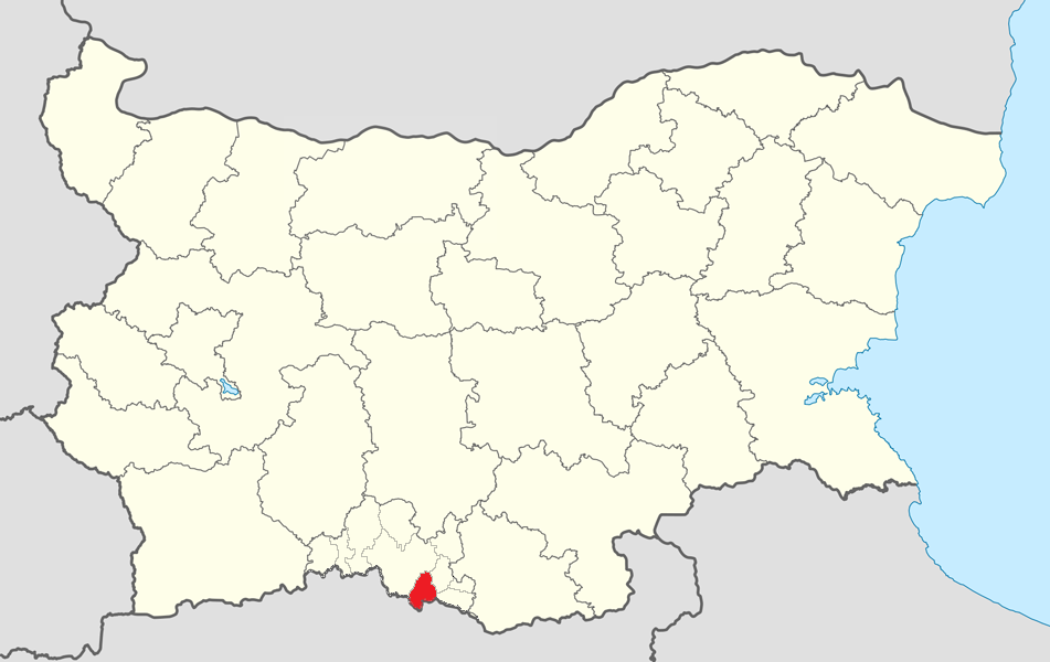 Location map of Rudozem Municipality within Bulgaria and Smolyan province